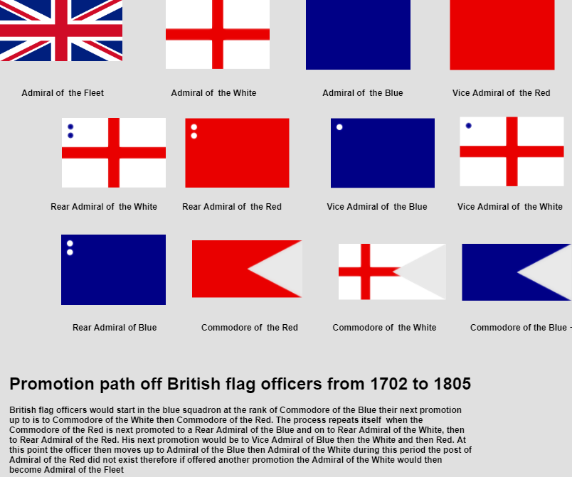 These are my own designs using draw.io flow chart maker British Flag officers begin their career in the Blue Squadron as Commodore of the Blue, then White, then Red if successful they are duly promoted up to the rank of Rear Admiral of the Blue, then White, then Red. The whole process is then repeated for Vice Admirals of the Blue, White and Red. The step up the promotion ladder would be Admiral of the Blue then Admiral of the White prior to 1805 the rank of Admiral of the Red was not established. Sourced using descriptions from the book British flags, their early history, and their development at sea; with an account of the origin of the flag as a national device by Perrin, W. G. (William Gordon), 1874-1931 published in 1922, Chapter IV Flags of Command pp. 73-109..